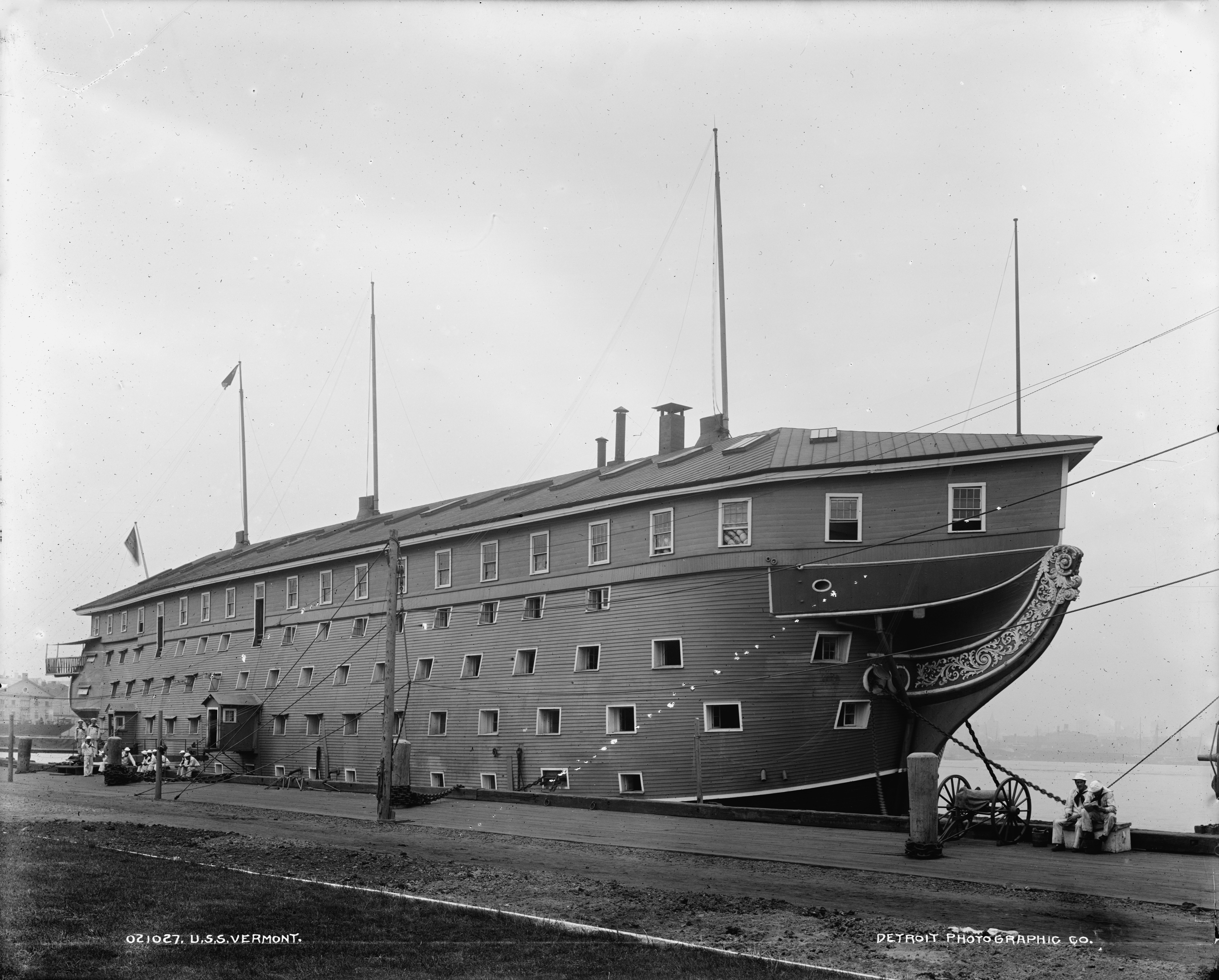 The former U.S. Navy ship of the line USS Vermont at the Brooklyn Navy Yard, New York (USA), in 1898.